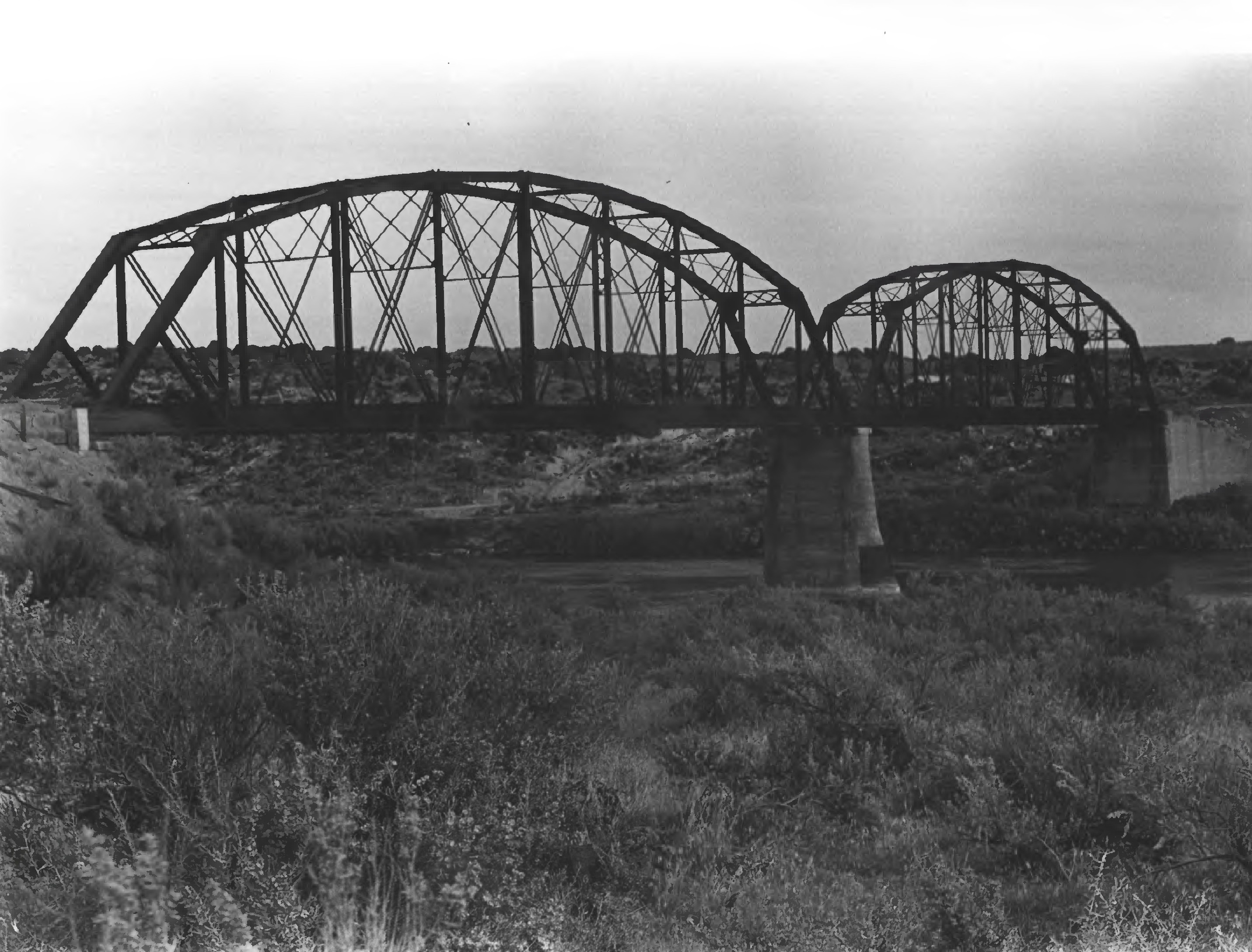 The Guffey Railroad Bridge spanning the Snake River at Celebration Park in the Guffey Butte – Black Butte Archeological District, Idaho, United States, looking to the northeast from Owyhee County toward Canyon County.